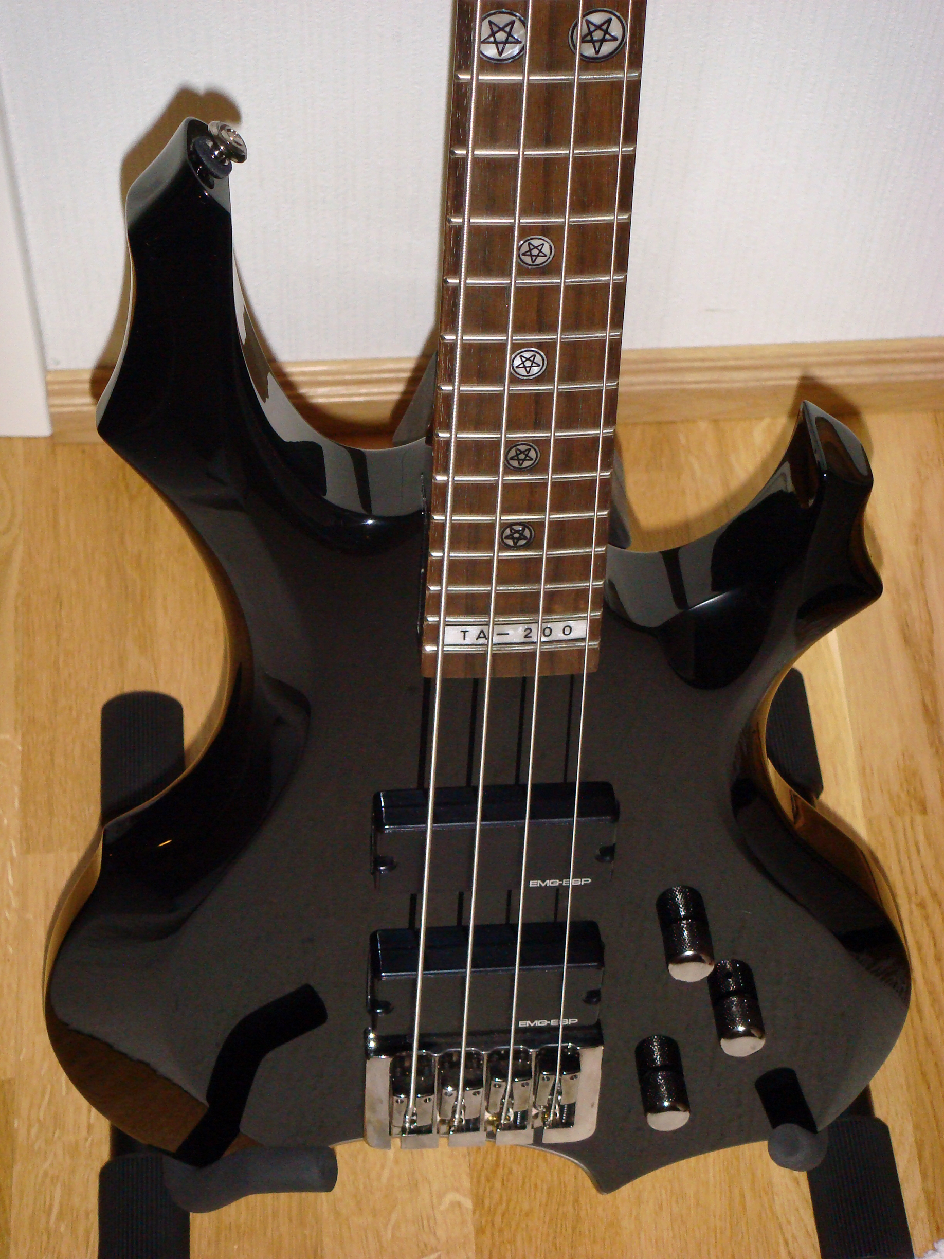 ESP LTD TA-200 bass guitar. Closeup of the distinctly shaped body of the mass produced signature series bass guitar endorsed by Tom Araya of Slayer.